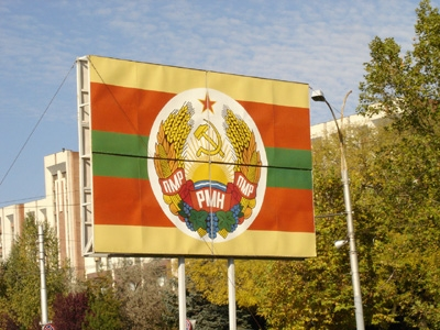 Flag of Transnistrian Republic. This was the flag of Moldavia during the Soviet period.